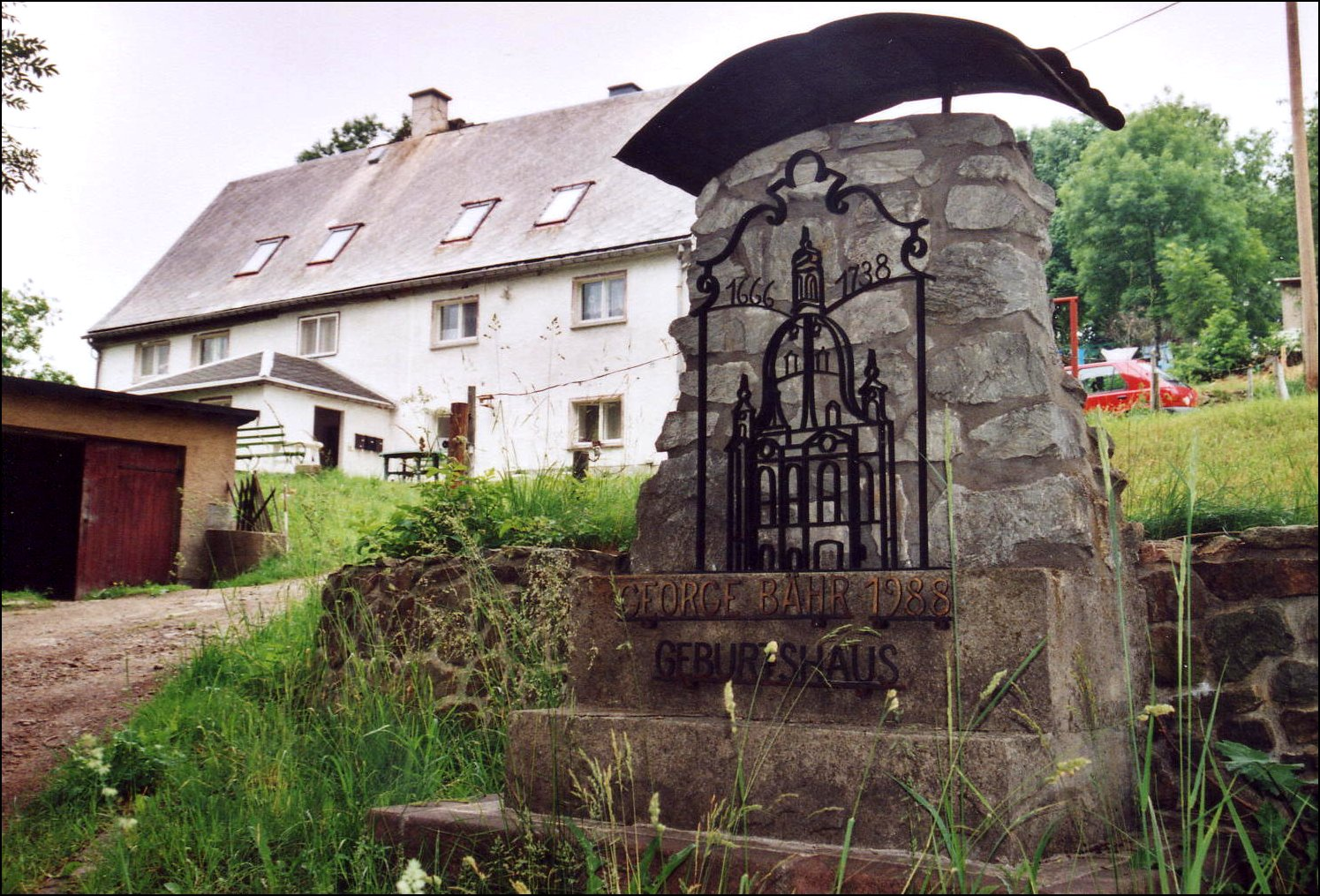 This image shows the birthplace of George Bähr in Fürstenwalde in the Ore Mountains in Saxony, Germany. Bähr (1666-1738) was the architect of the Church of Our Lady in Dresden.